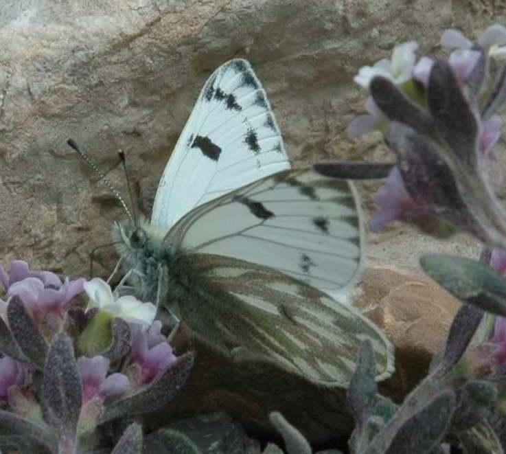 Lofty Bath White Pontia callidice Family Pieridae Underside view of Indian Lofty Bath White (Pontia callidice kalora). A high altitude butterfly photgraphed by Harshad Karandikar at Chandratal Lake, near Manali at 14,000 feet in July 2005. Donated by him for placement on Wikimedia Commons for specific use with Indian Butterlies wikibase. Uploaded by Nature Loader on his behalf. Nature Loader 09:13, 12 May 2006 (UTC)